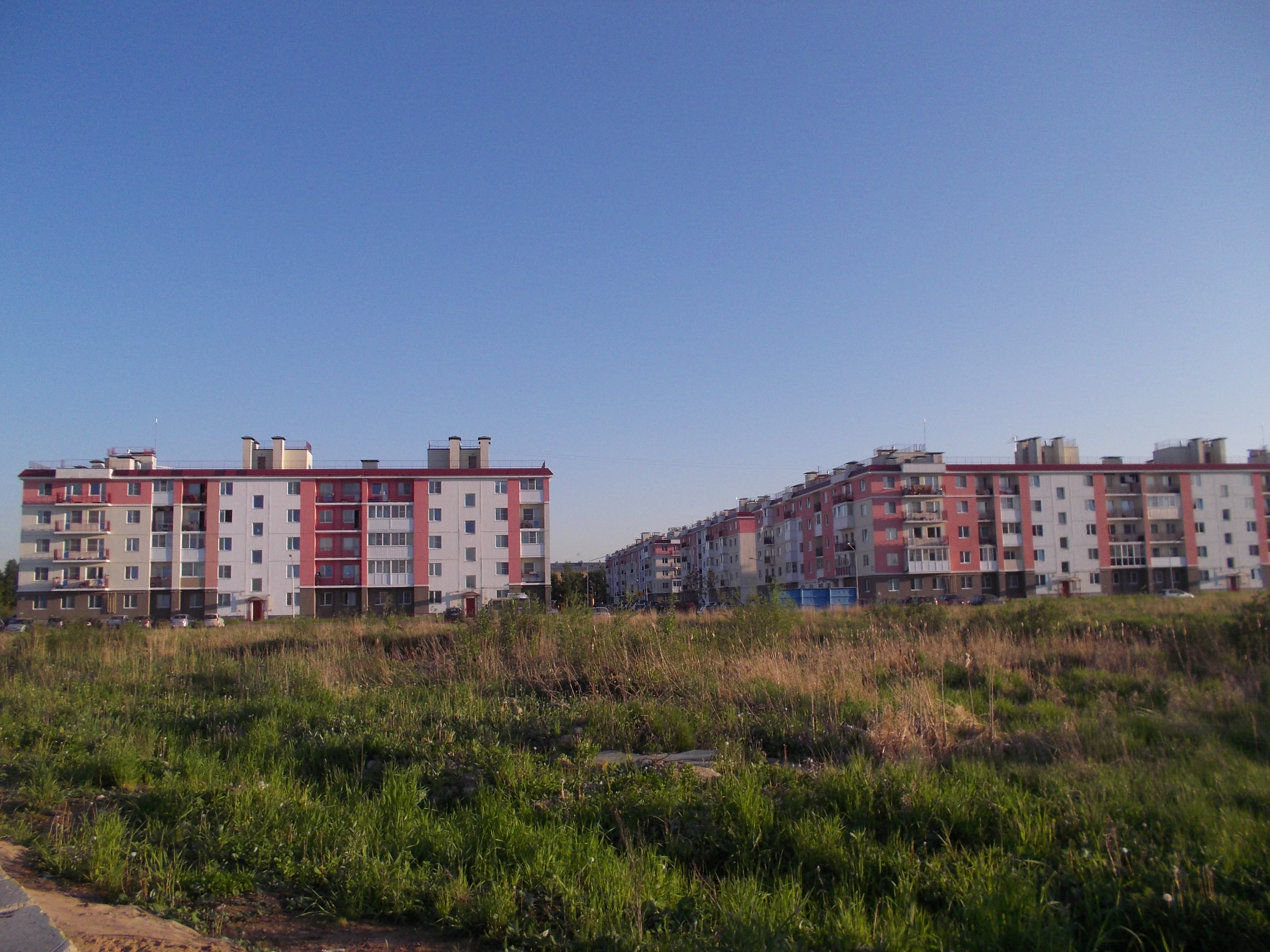 Krasnye Zori 10